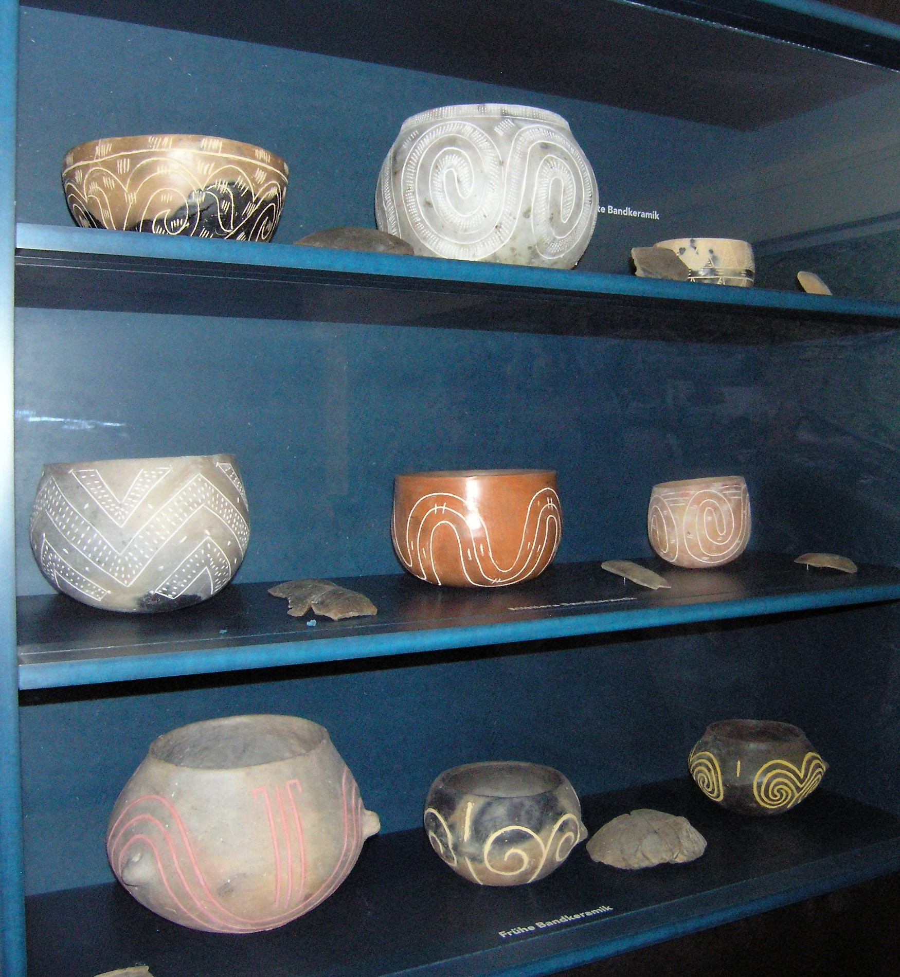 Reconstructions of Linear Pottery vessels from shards. Bandkeramik-Museum in Schwanfeld, Bavaria, Germany